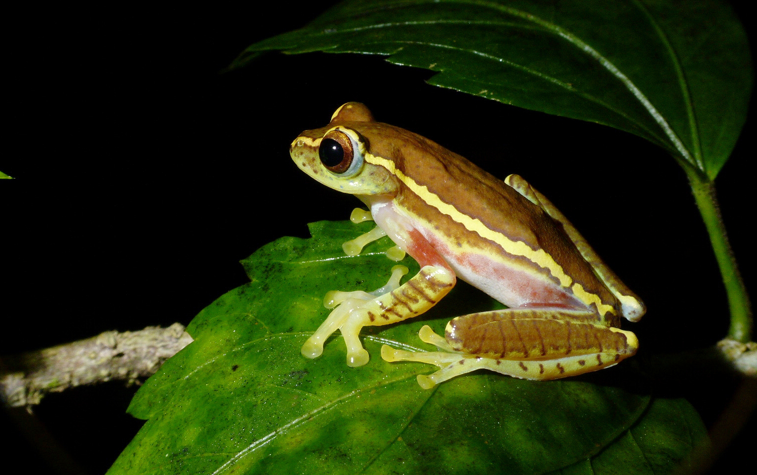 Rhacophorus lateralis from Coorg, India